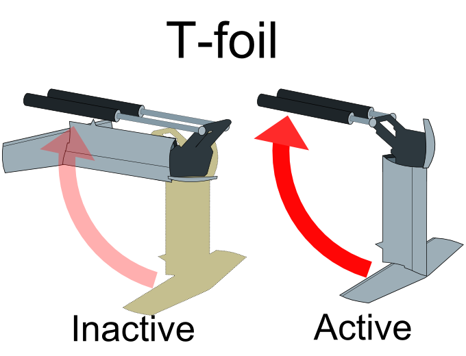 A hydrofoil is a boat with wing-like foils mounted on struts below the hull. As the craft increases its speed the hydrofoils develop enough lift for the boat to become foilborne - i.e. to raise the hull up and out of the water. The term hydrofoil is also used to refer to the foil itself. Modern hydrofoils use inverted T-shape foils. [1]